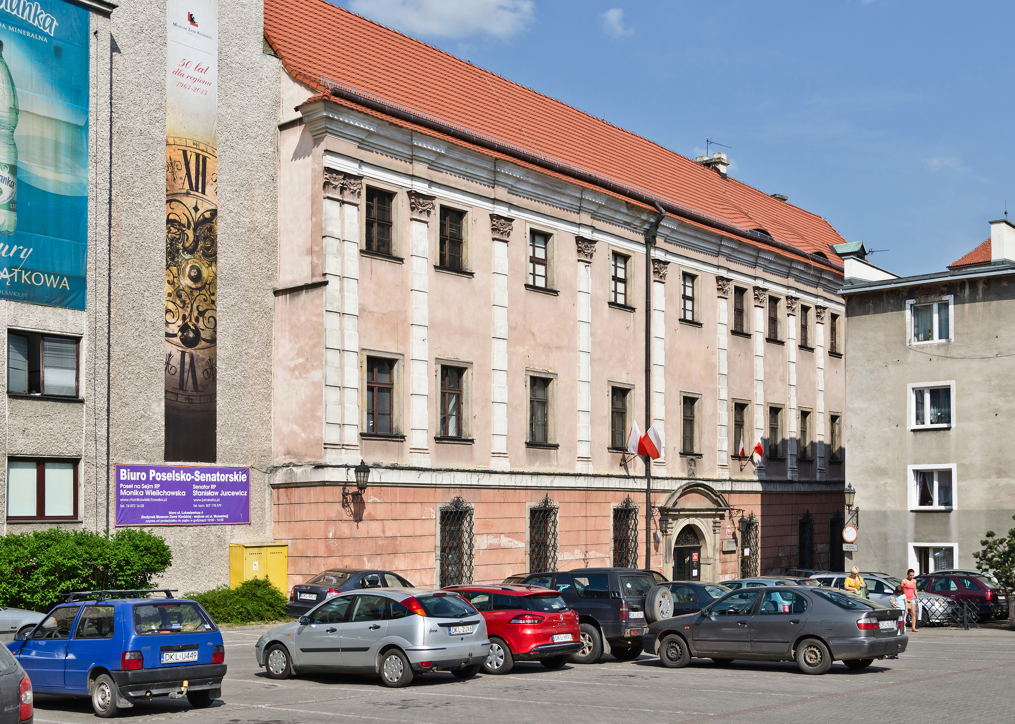 4 Łukasiewicza Street in Kłodzko